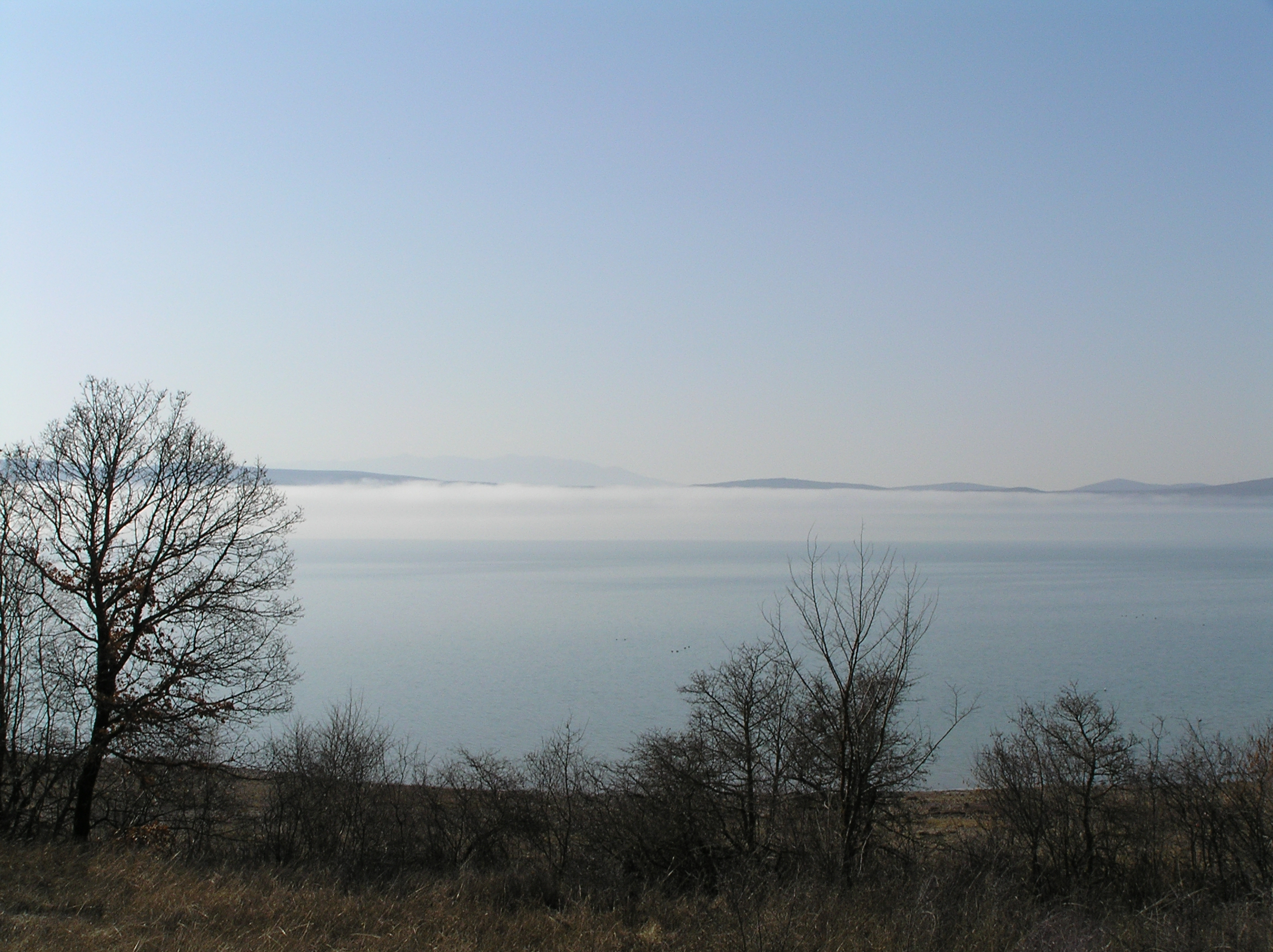 Lake Busko blato